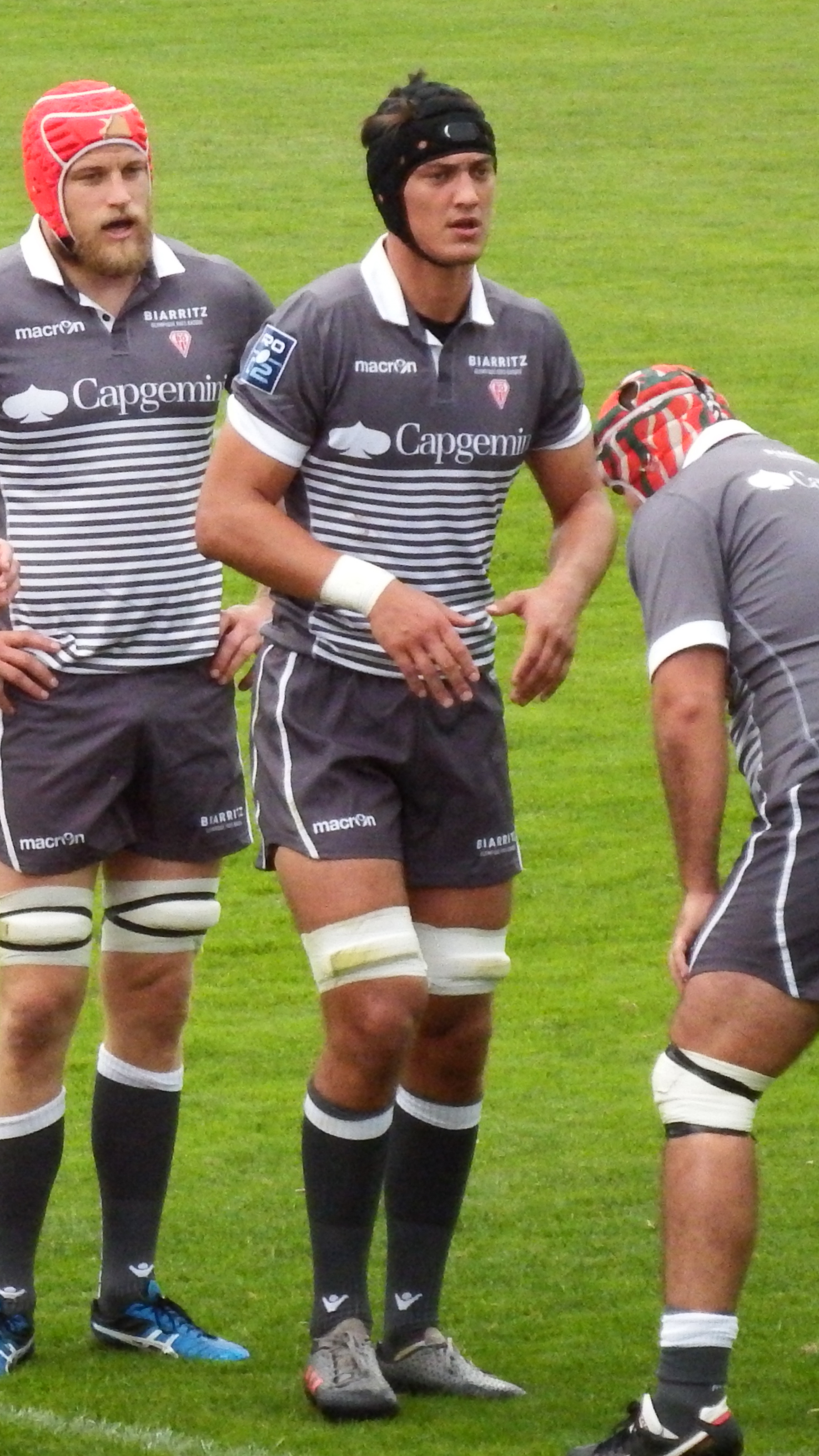 2016–17 Rugby Pro D2 season — 23 October 2016, Stade Maurice Boyau. Match between: US Dax — Biarritz Olympique